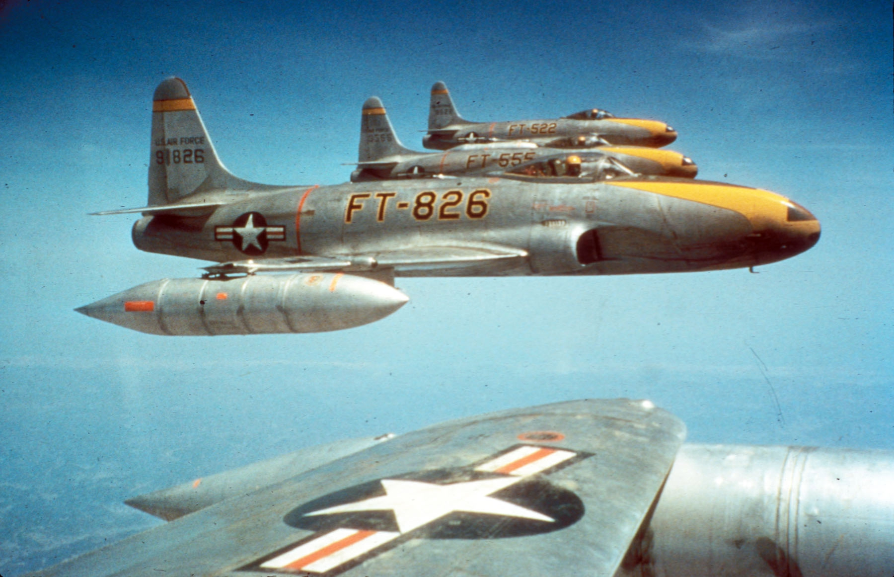 U.S. Air Force Lockheed F-80C Shooting Star fighter-bombers from the 8th Fighter-Bomber Squadron, 49th Fighter-Bomber Group, during the Korean War, in 1950-51. The aircraft are equipped with "Misawa' long range tanks.